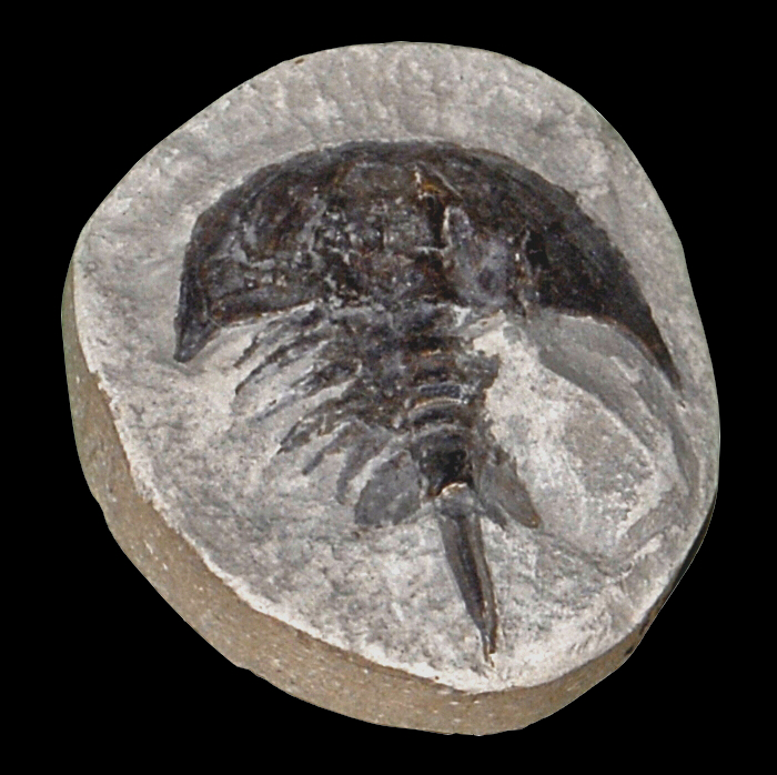 Fossils of Belinurus lunatus (syn. B. belulus) from Coal Brook Dale, England, on display at Gallery of Paleontology and Comparative Anatomy, Paris.